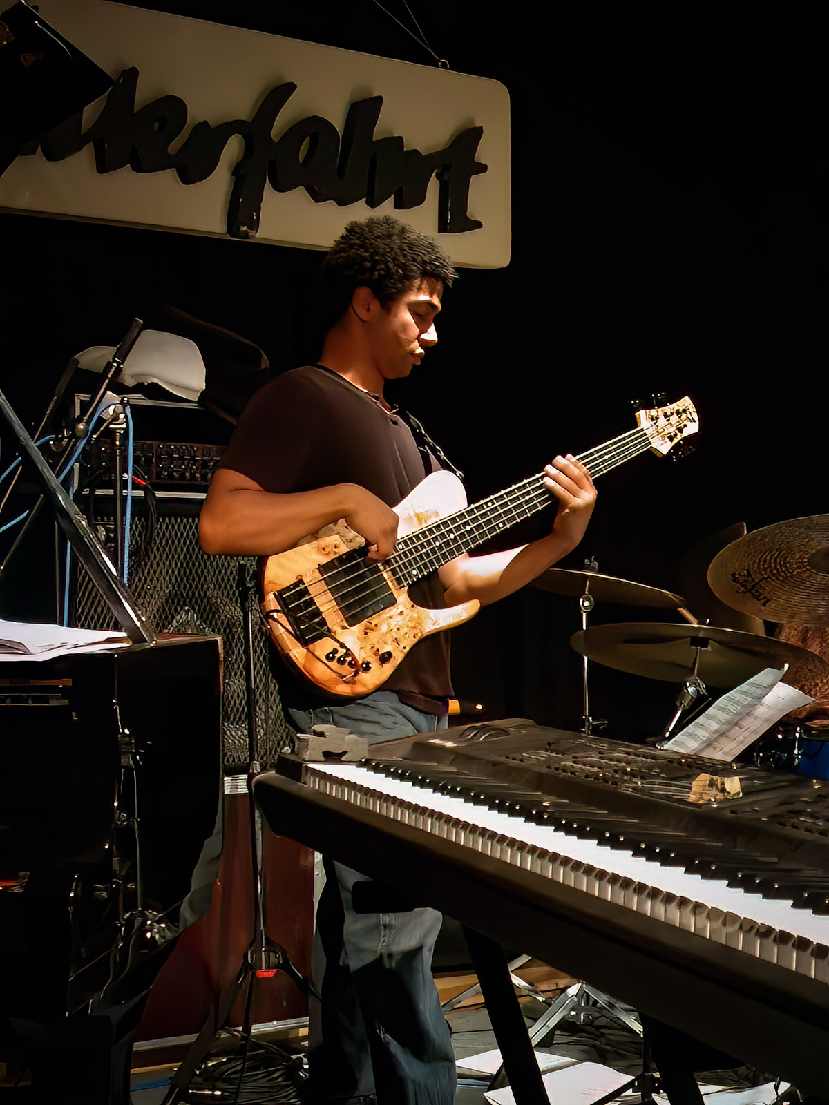 Matt Garrison in Munich/Germany 2002